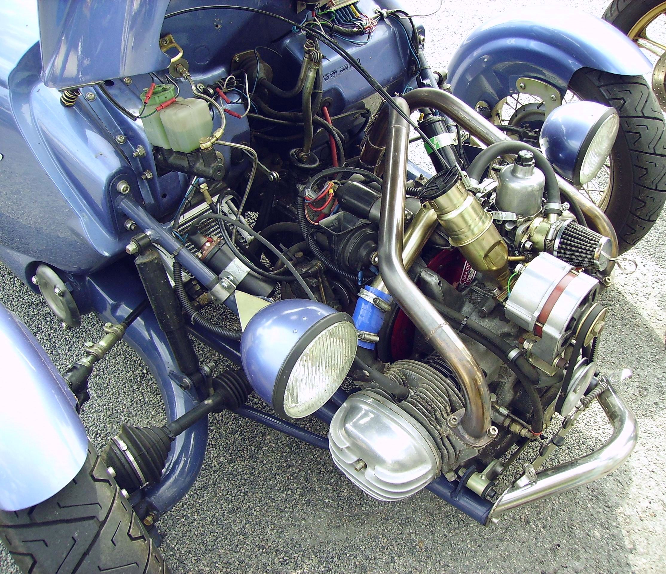 Citroën 2CV engine (602 cm3) of an Avion Blackjack. The carburetor has been modified to increase power. The 2 brake discs are located near the gear box.